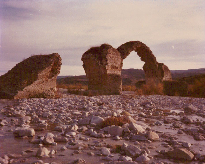 Image of the Etruscan Bridge near Guardialfiear taken in 1972.